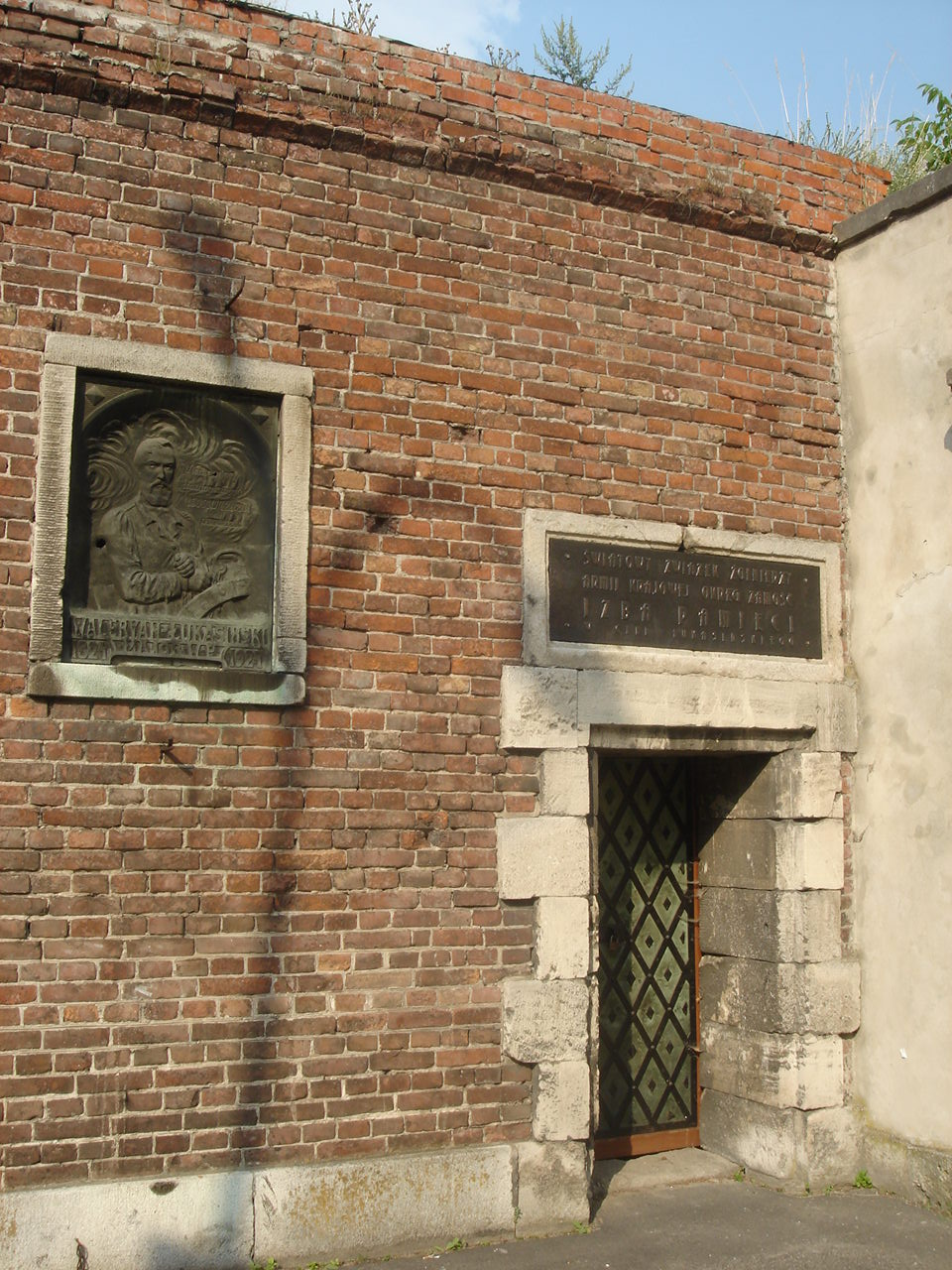 W. Łukasiński's cell in entrenchment of bastion VII in Zamość